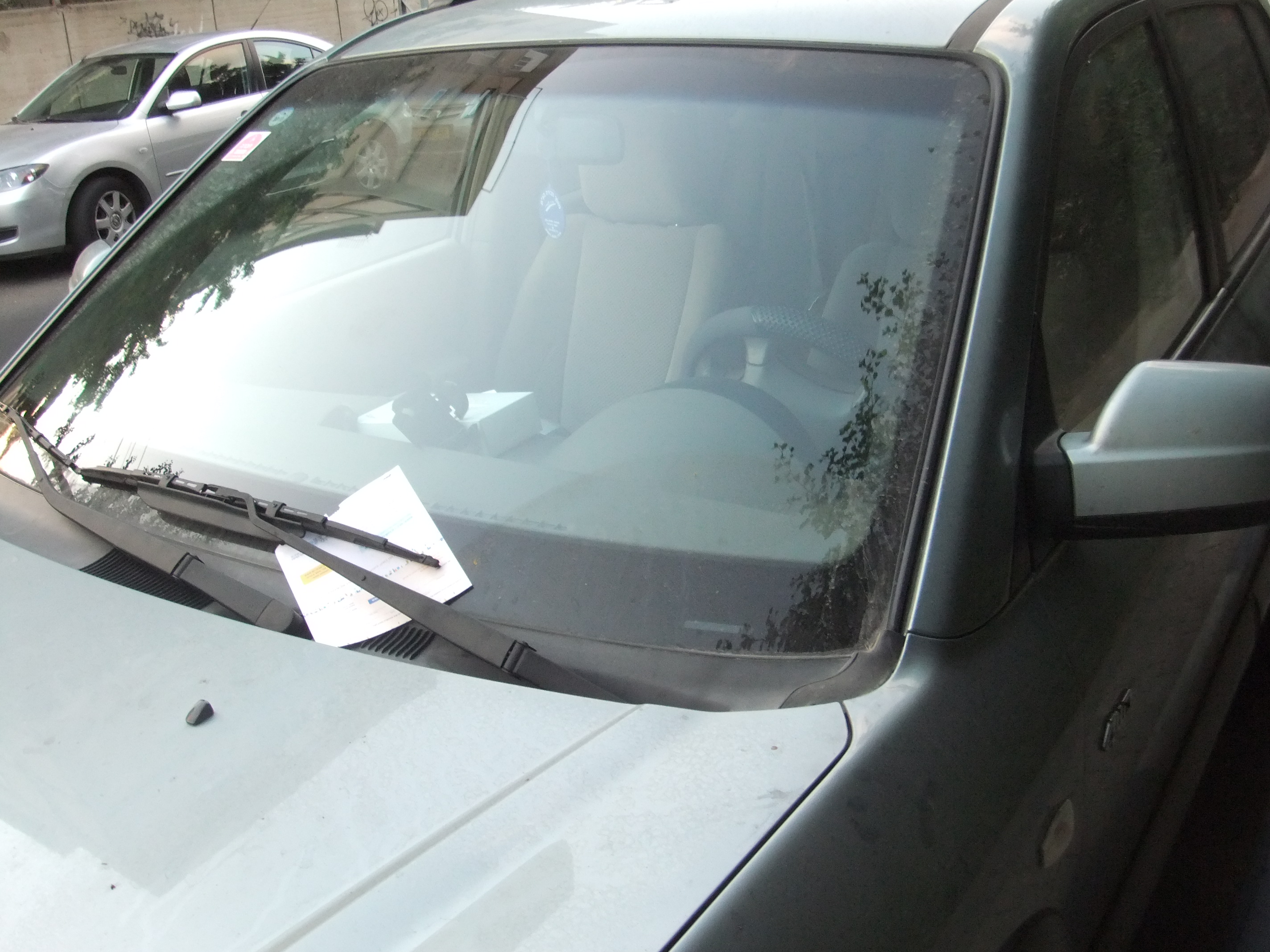 A car with a parking ticket in Tel Aviv